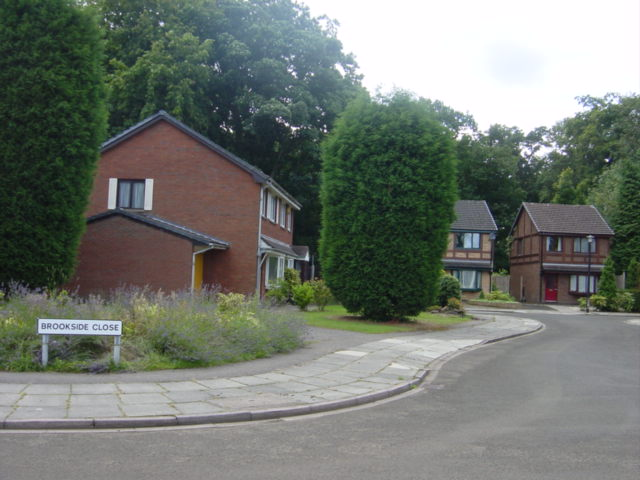 Brookside Close. Yes, this is the infamous Brookside Close of the Channel 4 soap, a cul-de-sac of real houses, now sadly up for sale due to the sad demise of the programme. Situated off Deysbrook Lane in what was once the Croxteth Hall estate.